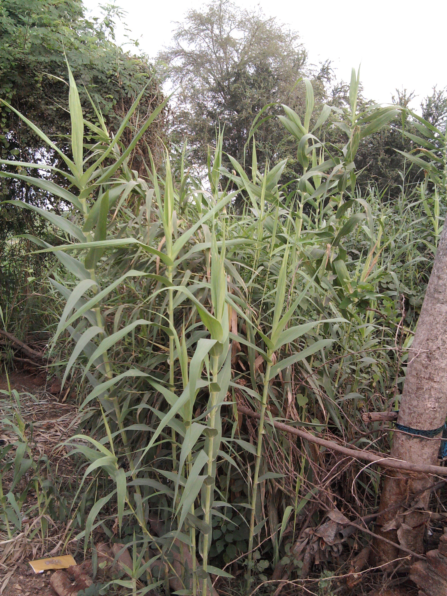 Crow Bamboo